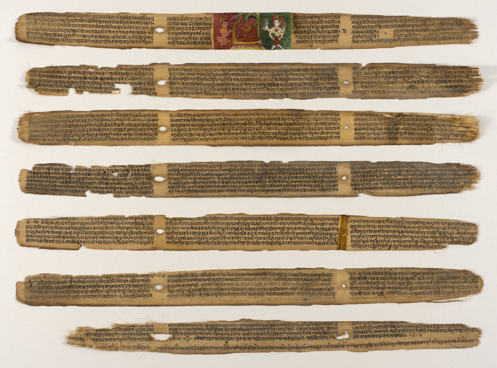 Nepal, Text- 12th-13th century; Images- 18th-19th century Books Ink and opaque watercolor on palm leaf Gift of Emeritus Professor and Mrs. Thomas O. Ballinger (M.87.271a-g) South and Southeast Asian Art